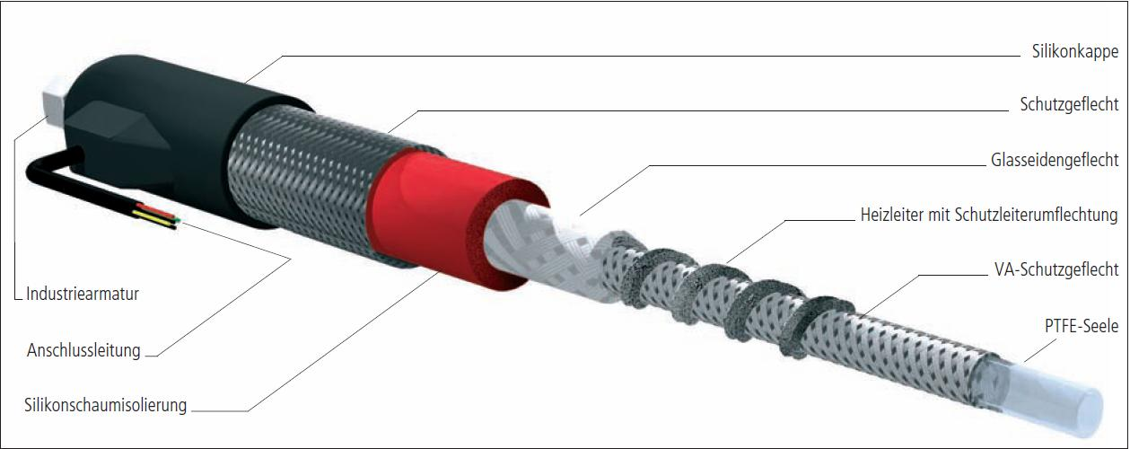 Assembly Scheme of a heated hose